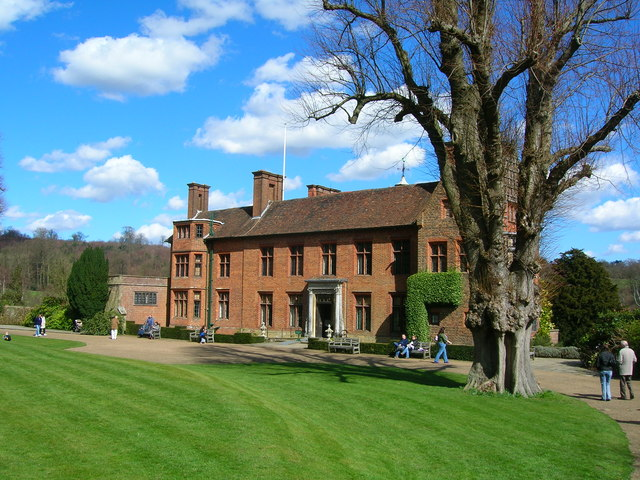 Chartwell House - front elevation.